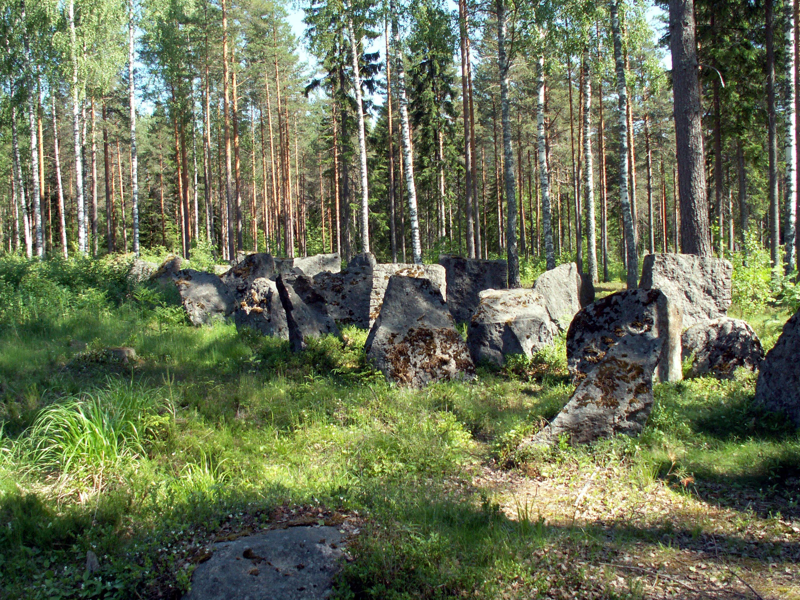 Tank obstacles in Miehikkälä, Finland, part of the Finnish Salpa Line